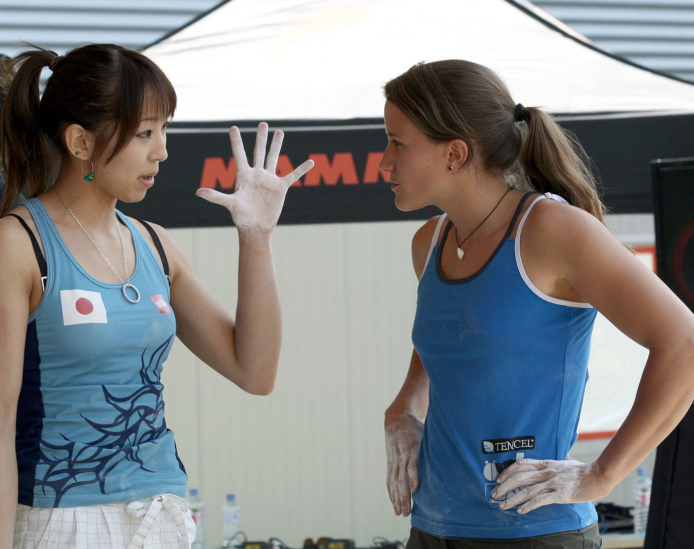 Akiyo Noguchi and Anna Stöhr during the semi-finals at the IFSC Boulder Worldcup Vienna 2010.